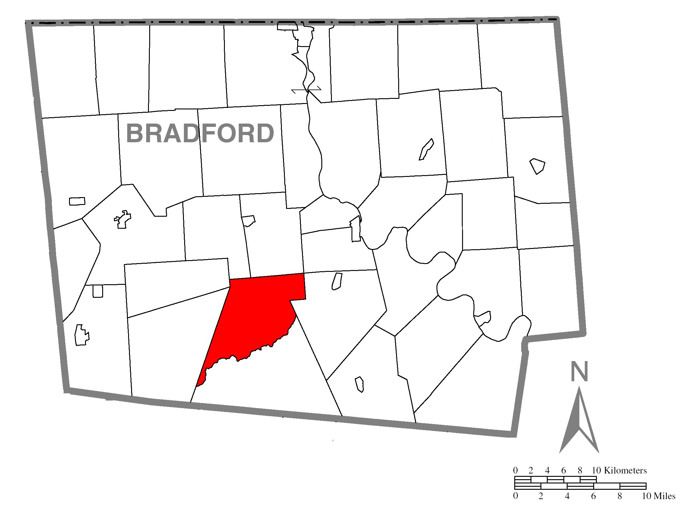 A map of Bradford County showing Franklin Township, Pennsylvania (alternate) highlighted on the map.